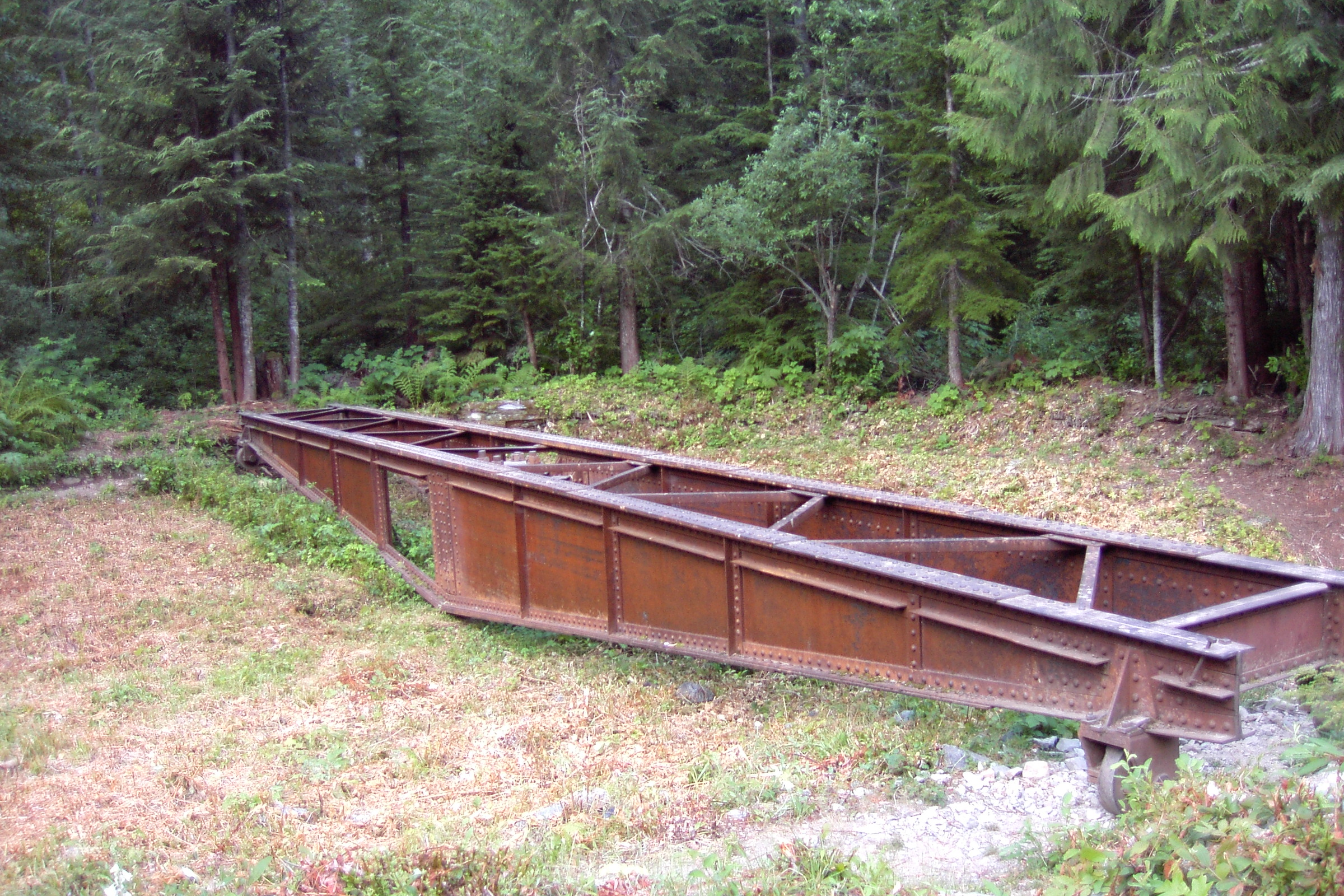 Turntable at the former Monte Cristo, Washington rail yard